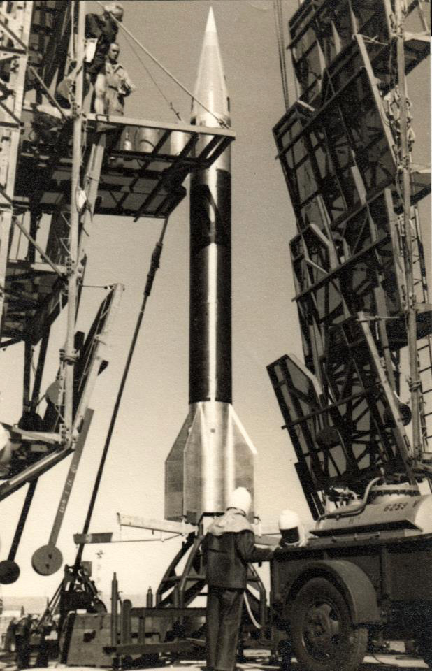 Preparing a Véronique-AGI sounding rocket in the Algerian city of Reggane circa 1962.